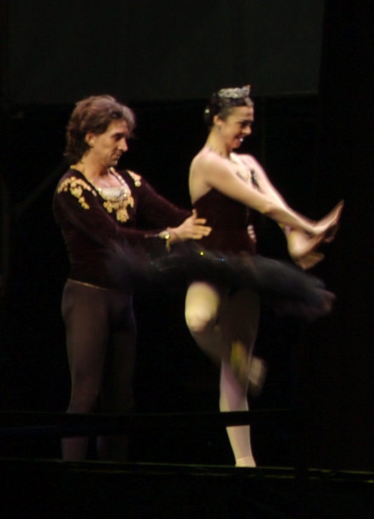 Julio Bocca and possibly Eleonora Cassano?Julio Bocca gave a *final* performance in the center of Buenos Aires, Argentina on December 22, 2007. They closed off 9 de Julio at the Obelisk. It was the largest and pushiest crowd I've ever been in. Beautiful performance, but scary crowd.